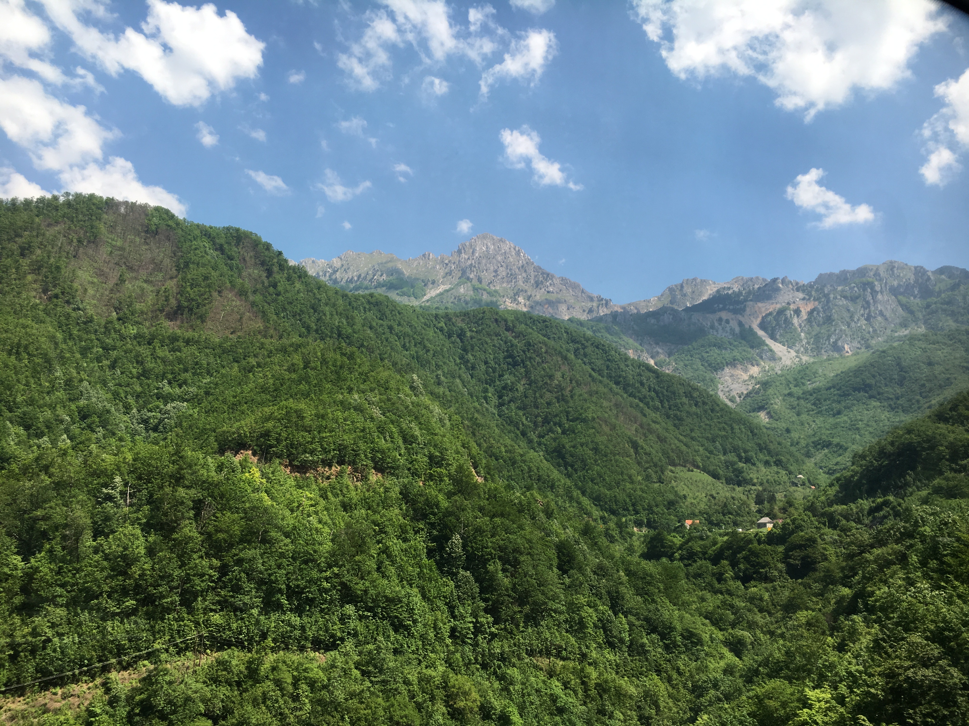 The river valley of Slatina (tributary of Morača) and Sinjajevina mountains (southern part). The mountains in the distance are up to 1200 high. The picture has been made from the M2 road.